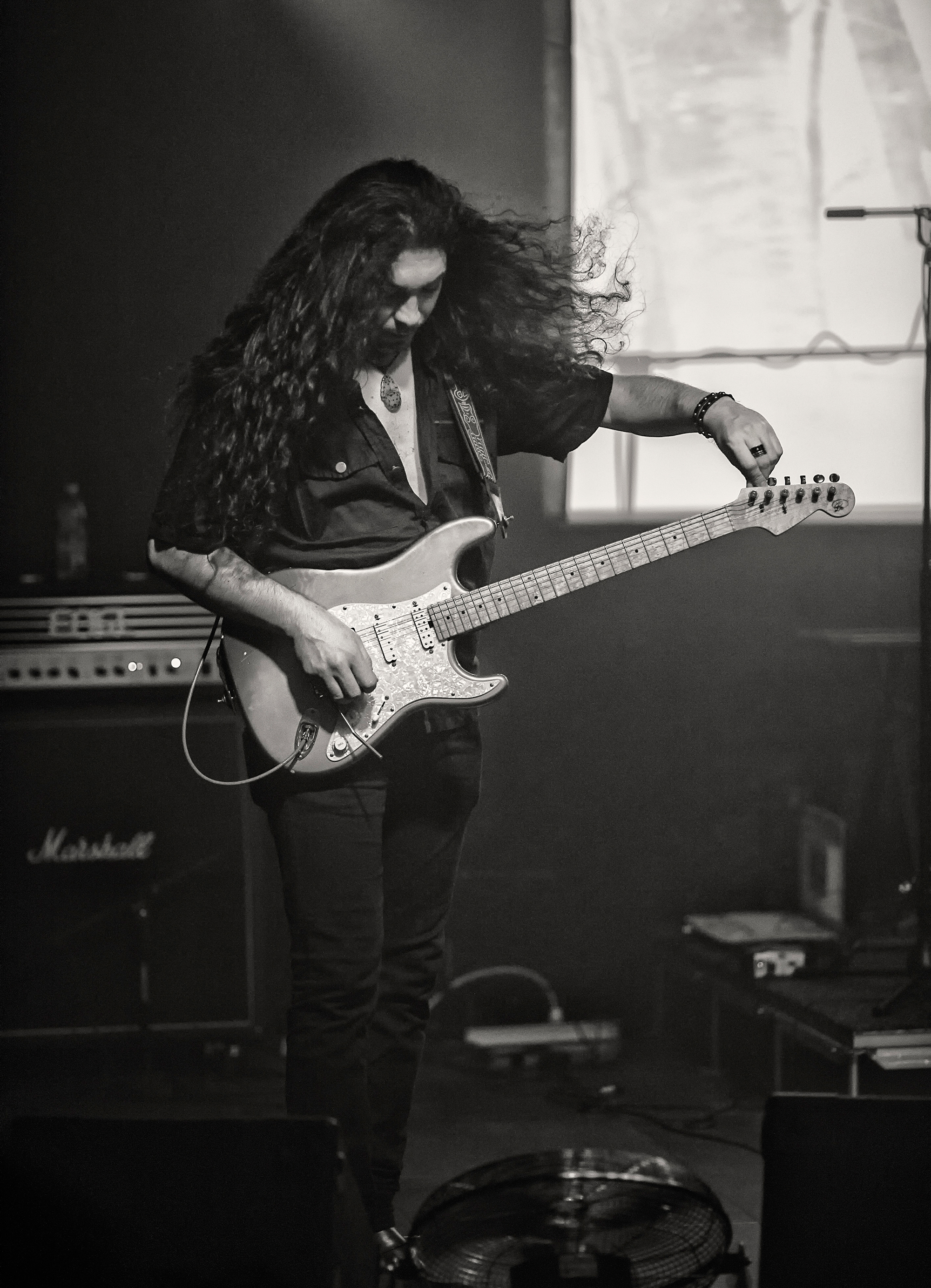 Pier Gonella On Stage